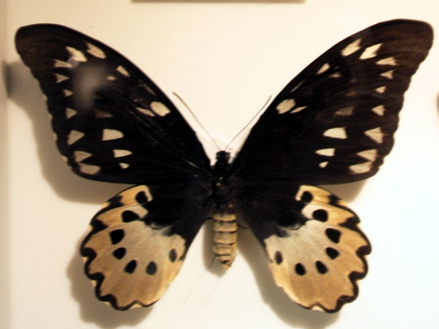 Ornithoptera chimaera, female